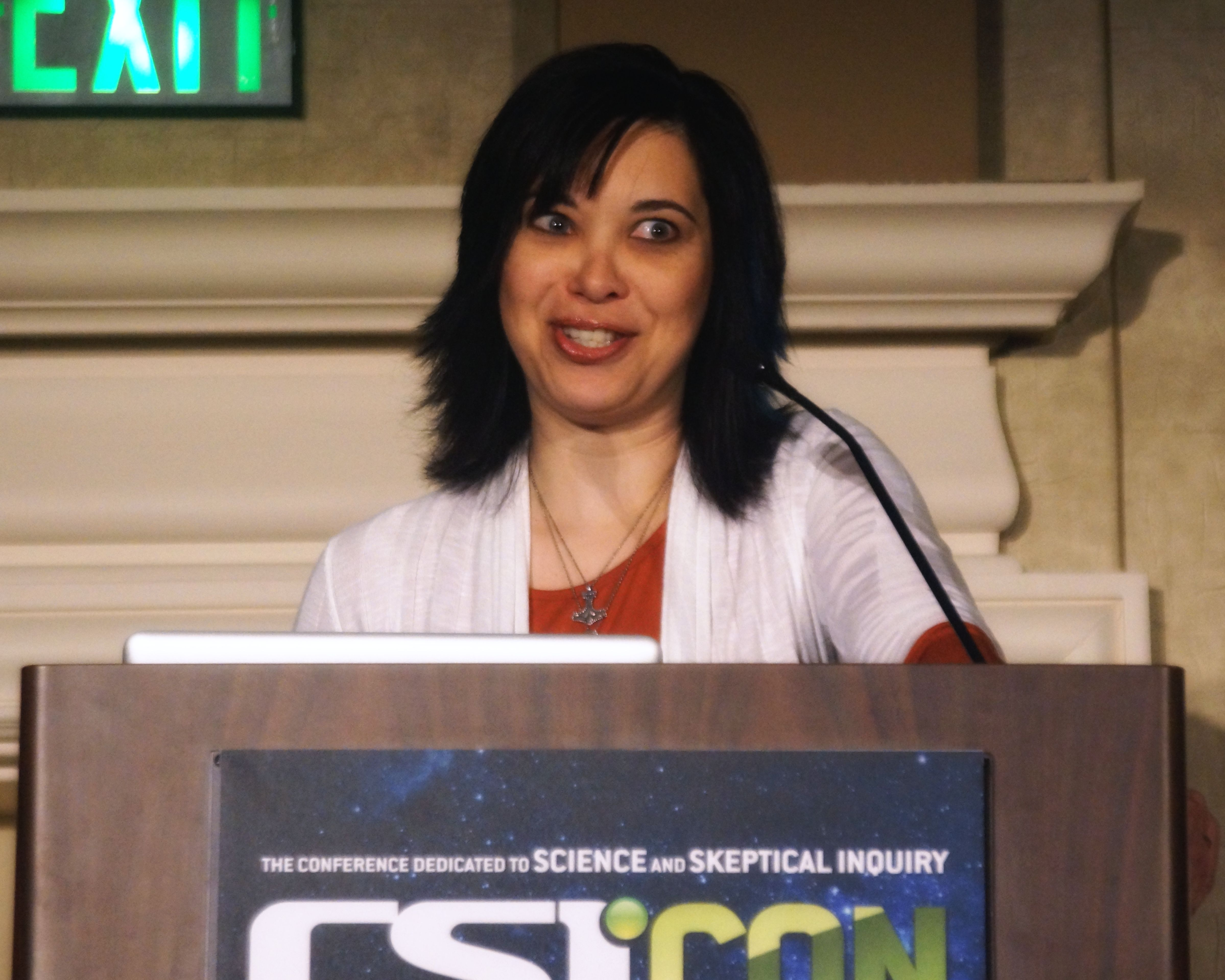 Sharon Hill addresses "How to Think About Weird News" at CSICon 2012 in Nashville, October 28, 2012.